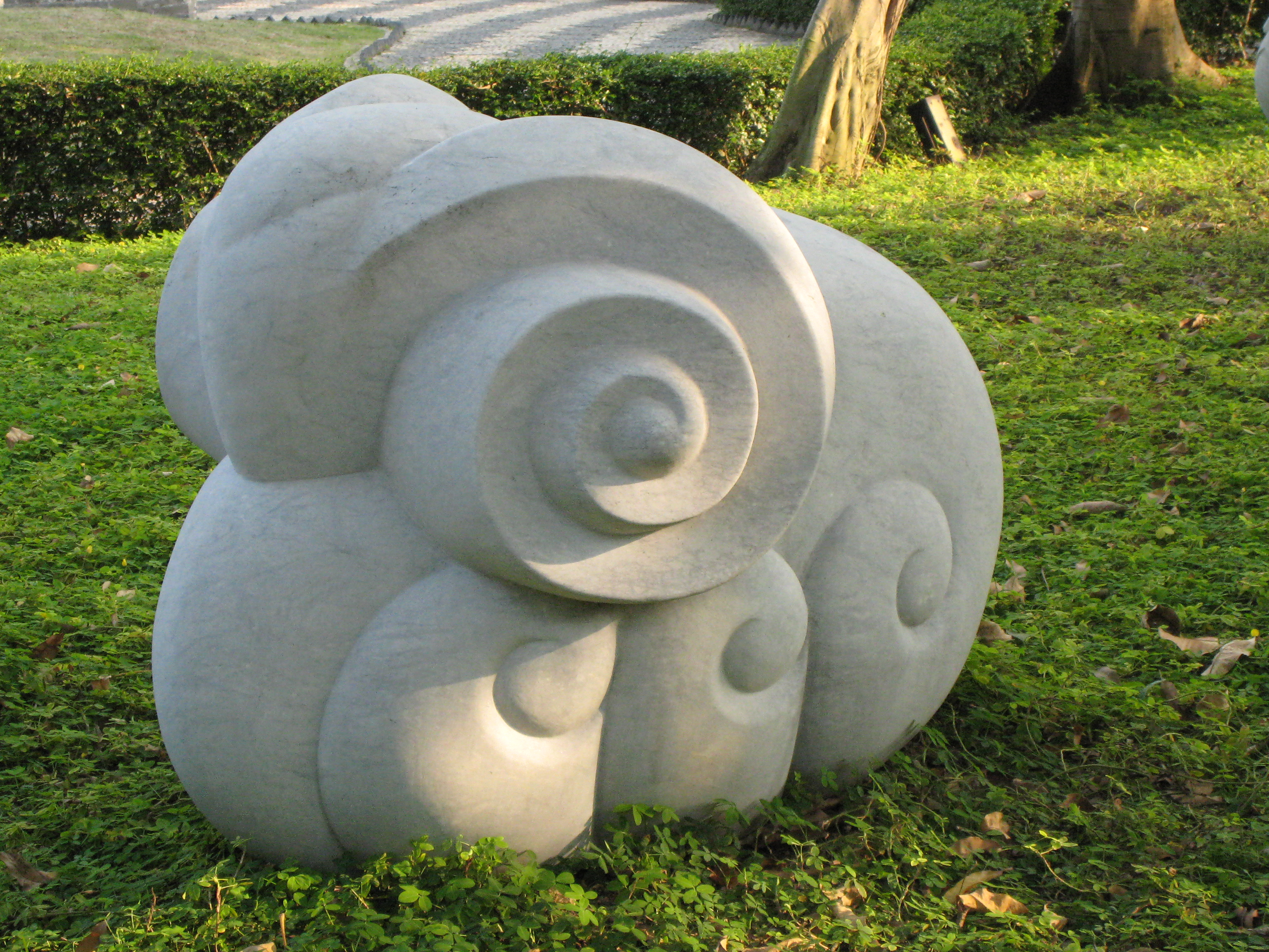 The Goat statue is one of the 12 Chinese zodiac portrayed in the Kowloon Walled City Park in Kowloon City, Hong Kong.